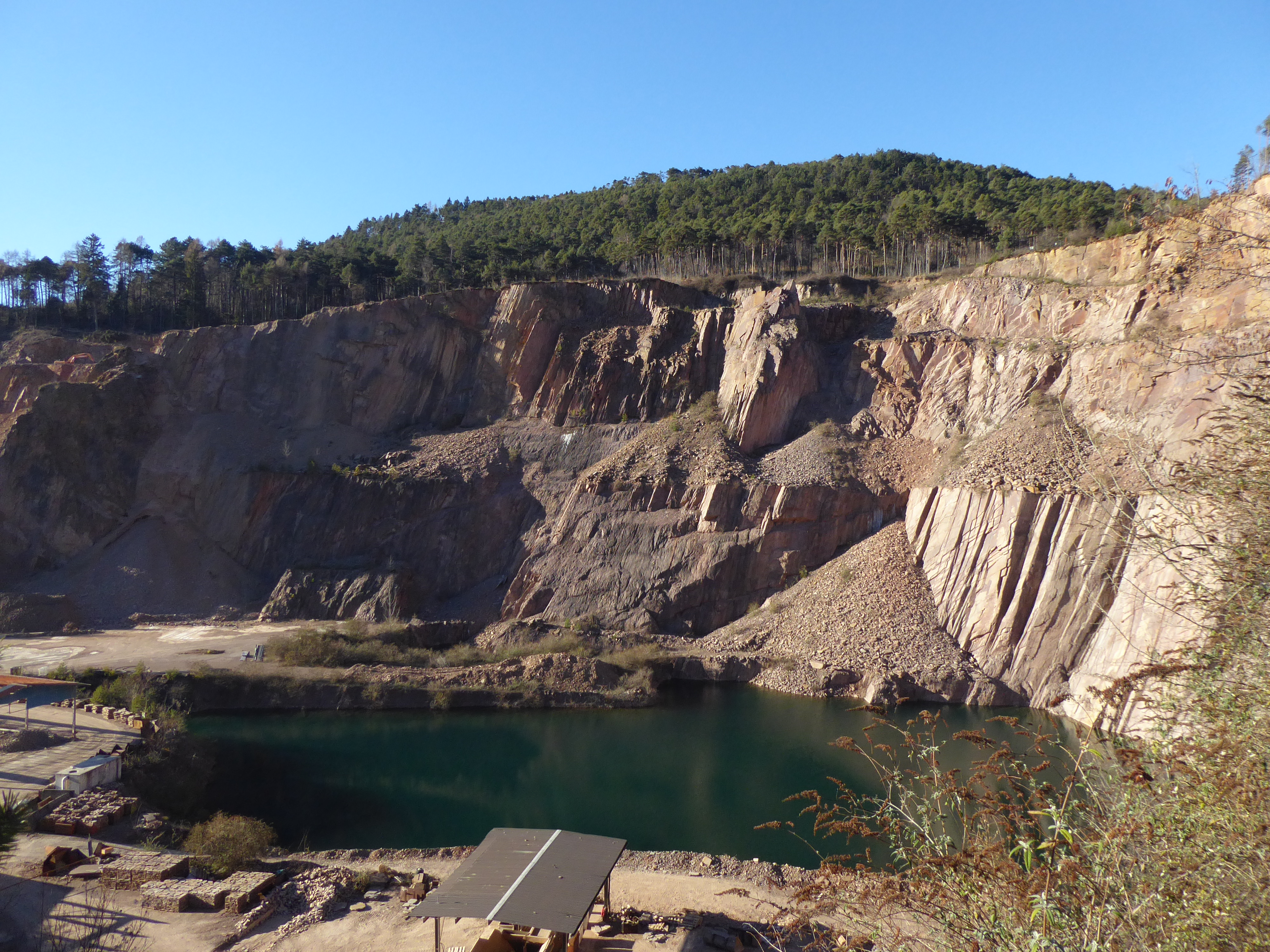 Fornace (Trentino, Italy) - Porphyry quarry on Mount Gorsa